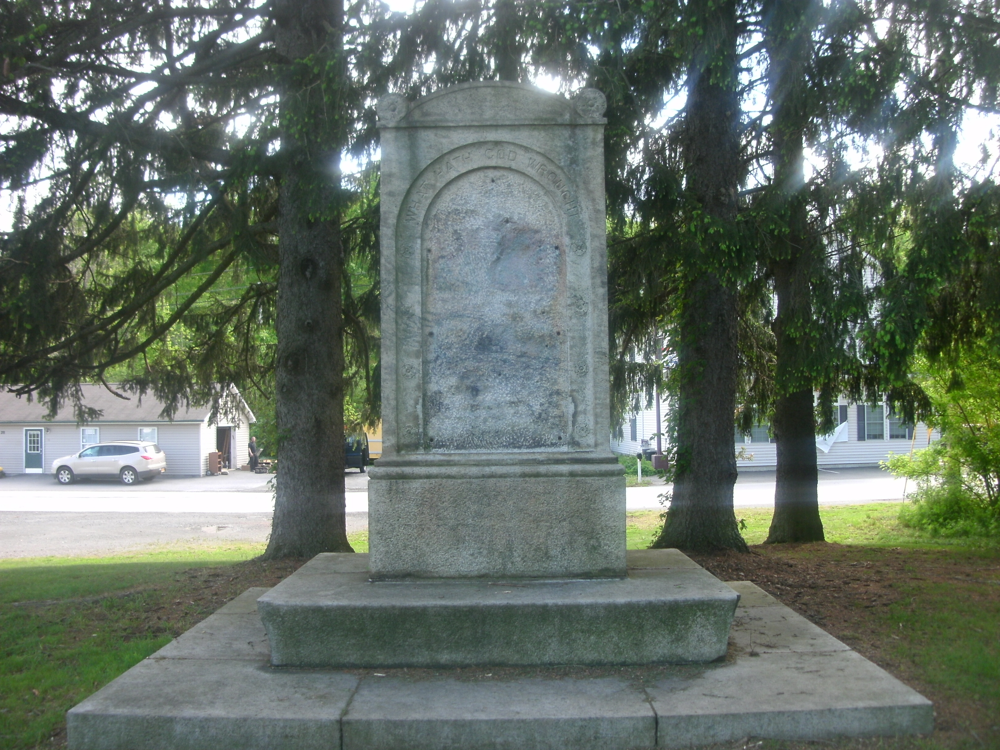 The former monument honoring Charles Minot at the Harriman Erie Railroad station.